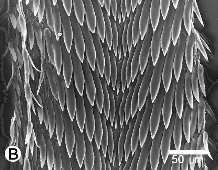 SEM photo of radula of Perrottetia aquilonaria (paratype CUMZ 5004). Photo taken by JEOL JSM-5410 LV scanning electron microscope.